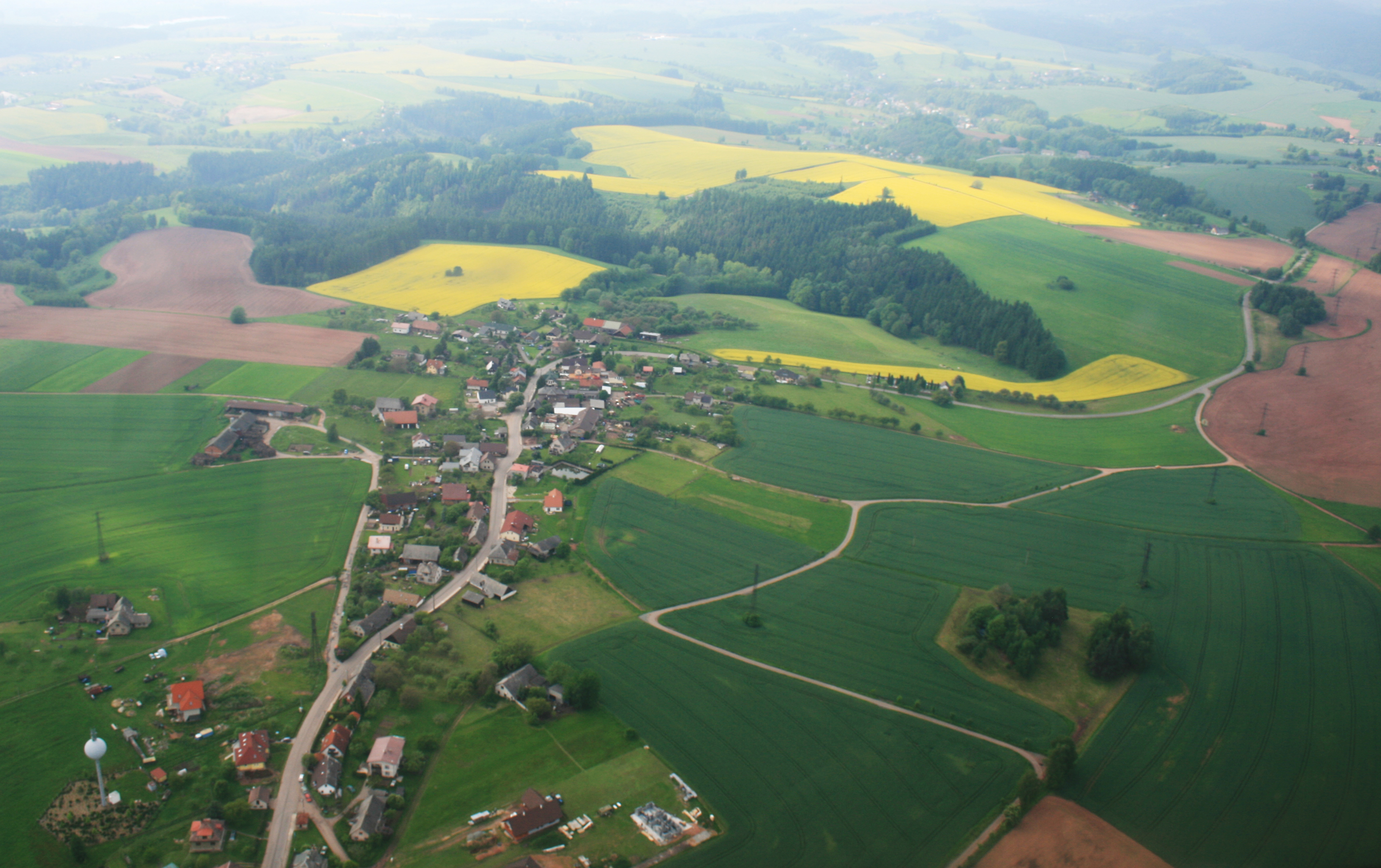 Village Pavlišov, part of town Náchod, from air, eastern Bohemia, Czech Republic